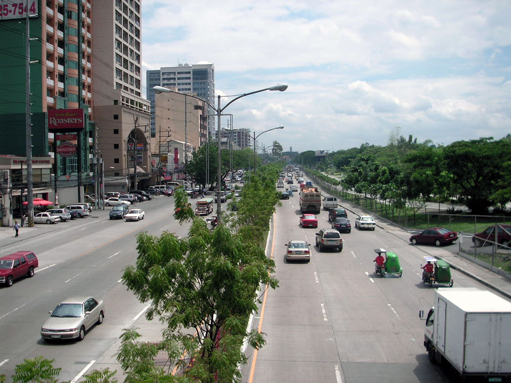 Katipunan Avenue in Quezon City, fronting Ateneo de Manila University.